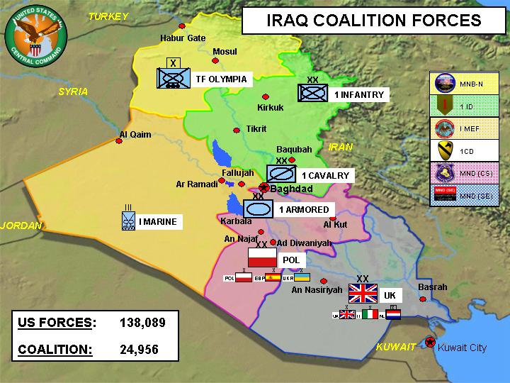 Dispositions of U.S. and allied forces in Iraq, as reported in a Pentagon press briefing of April 30, 2004. Original URL